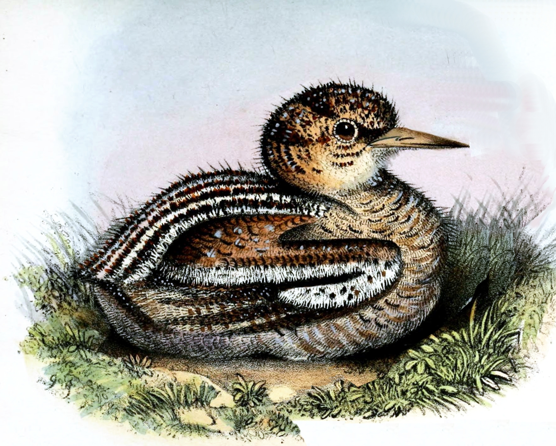 Chicks of Sunbittern